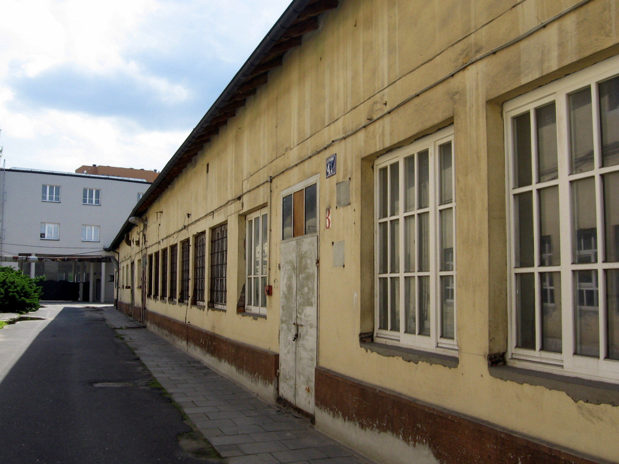 Oscar Schindler's enamel factory in Krakow